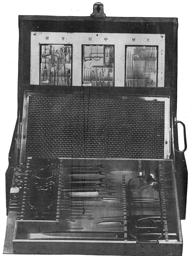 Japanese field instrument case, showing sterilizer tray. This case is heavy, lined with nickel-plated copper, and equipped with aluminum instrument racks. The tray can be removed with the instruments in it and used as a sterilizer--a very convenient feature. Figure 408 from the Handbook On Japanese Military Forces.